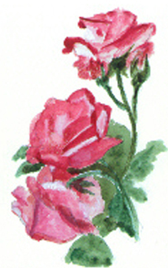 Roses